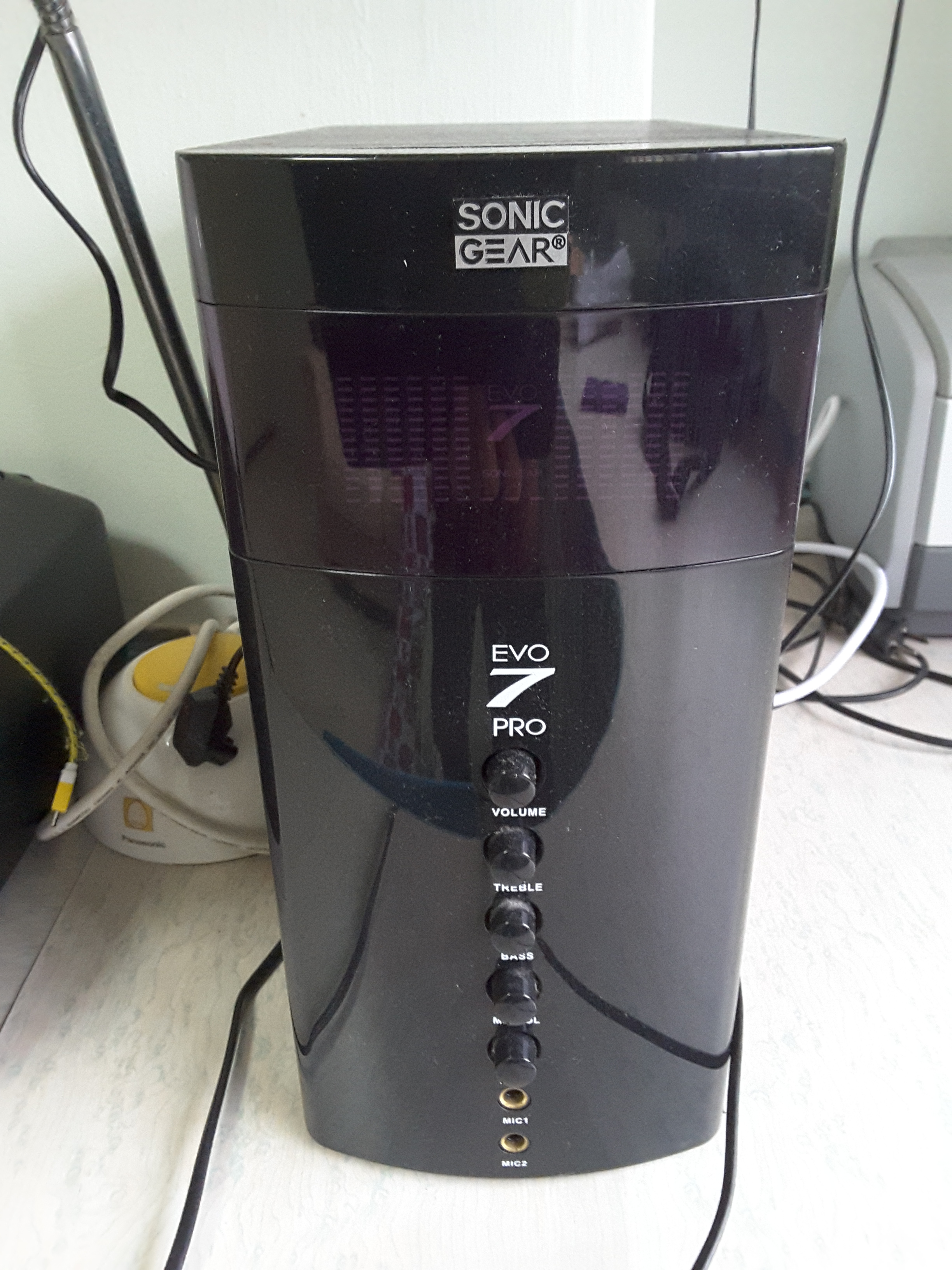 A Sonicgear Speaker System